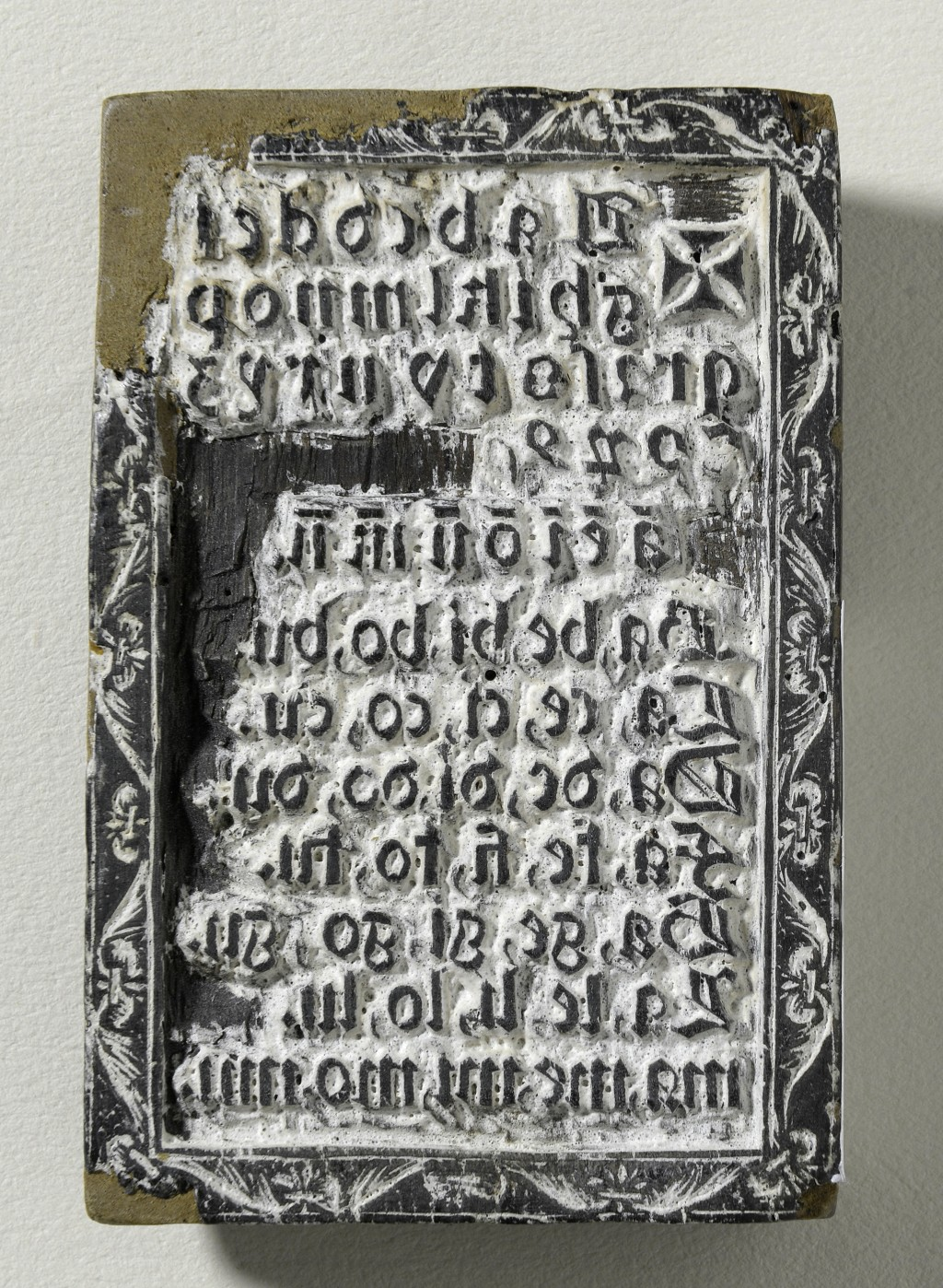 Barcelona (Biblioteca de Catalunya), Catalonia: Sherrywooden matrix of a page from a 16th century Abecedary